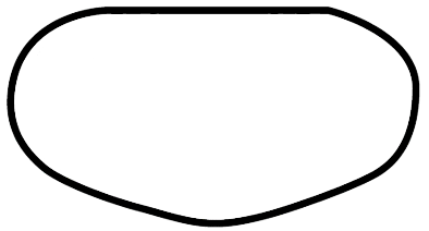 Mapa do Nashville Superspeedway